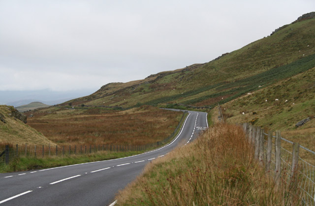 The A470 at Bwlch Oerddrws, looking towards Dolgellau, Wales.